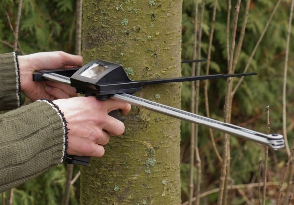 Electronic caliper for measurement of tree diameter